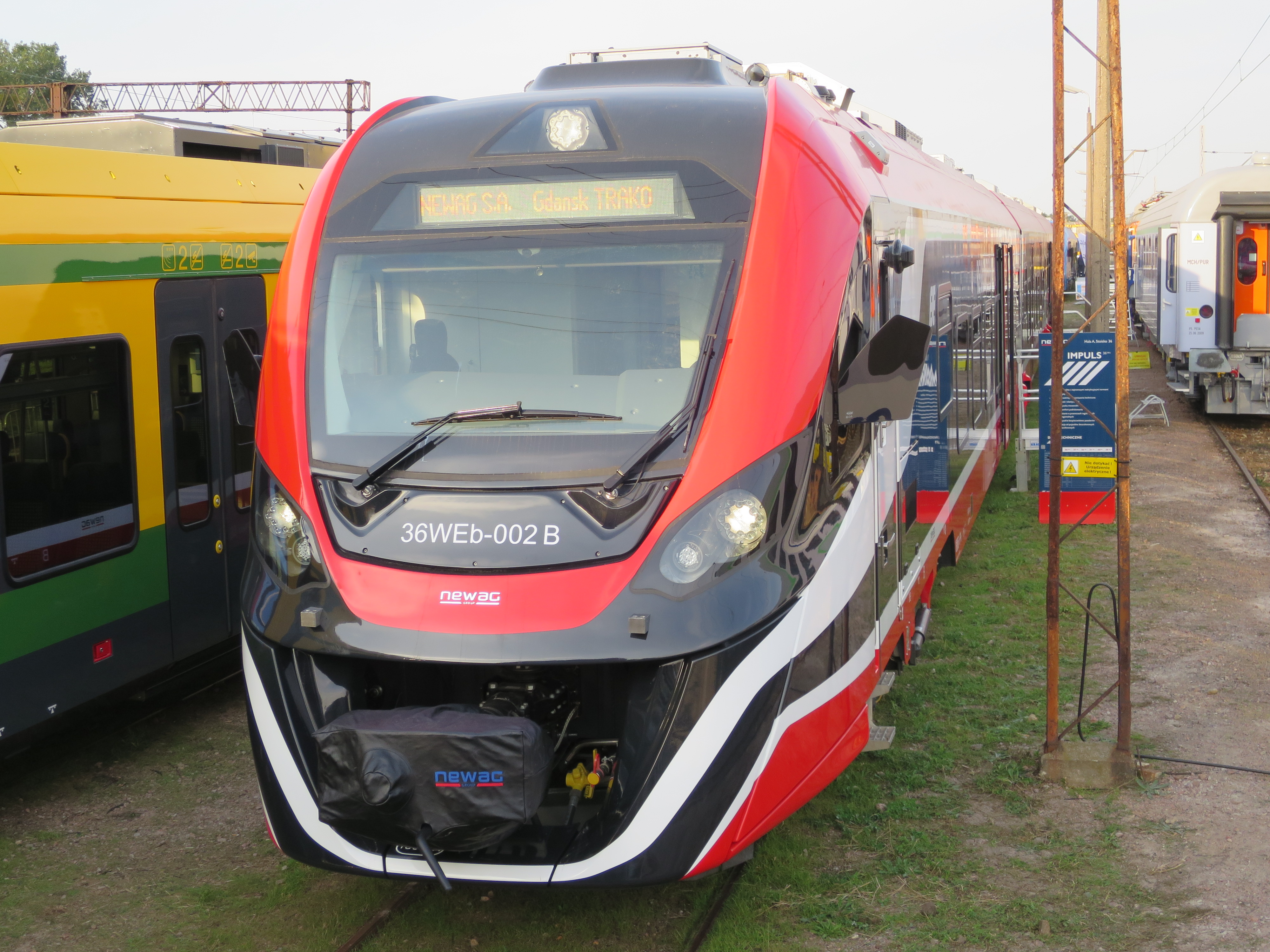 The making of this document was supported by Wikimedia Polska Association, within Wikigrant no. WG 2017-44. 36WEb-002 Newag Impuls II FSE ETR 322